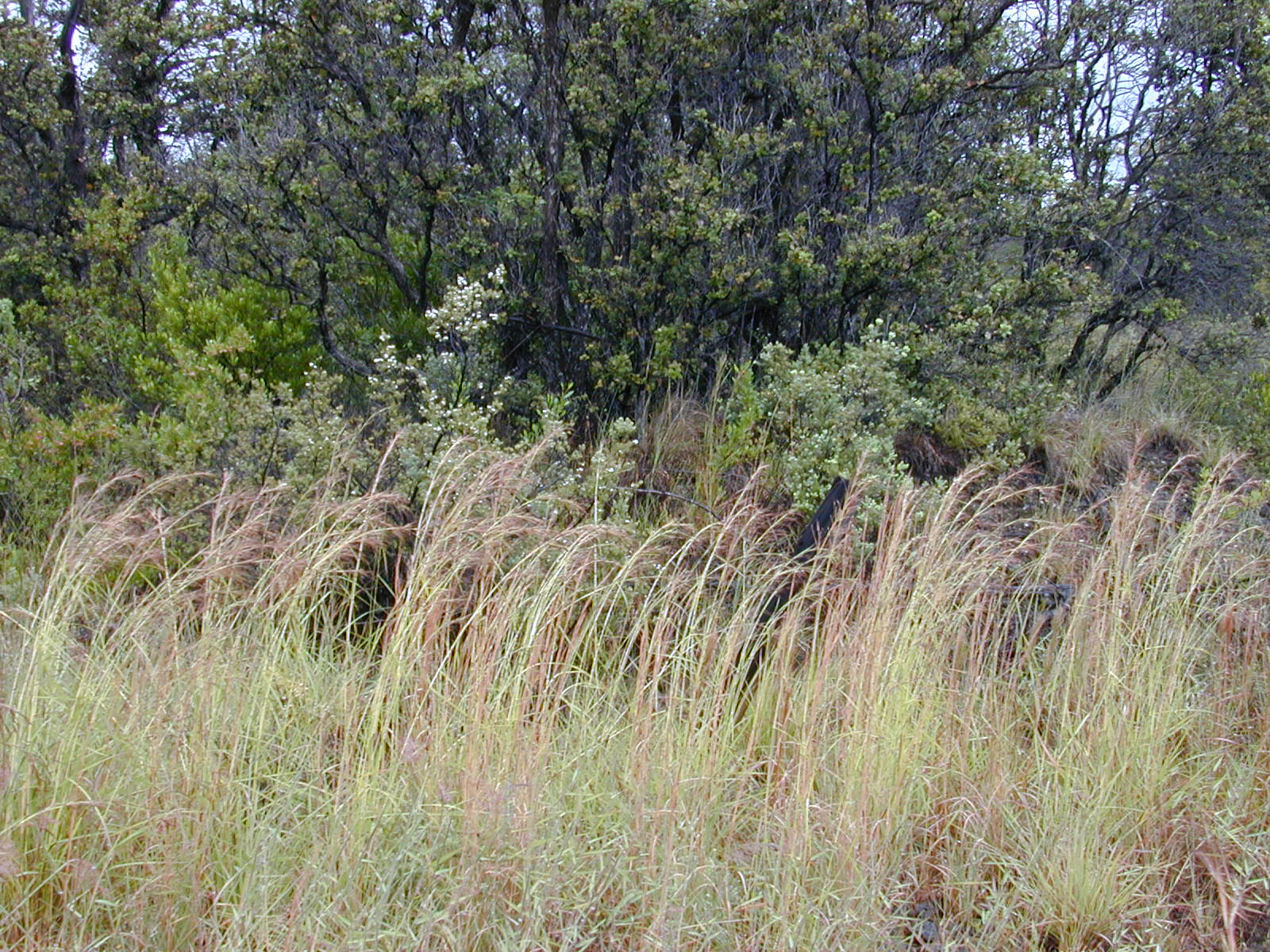 Hyparrhenia rufa (habit). Location: Hawaii, Hwy11 HAVO